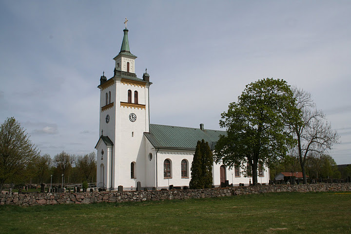 Knäreds kyrka i södra halland